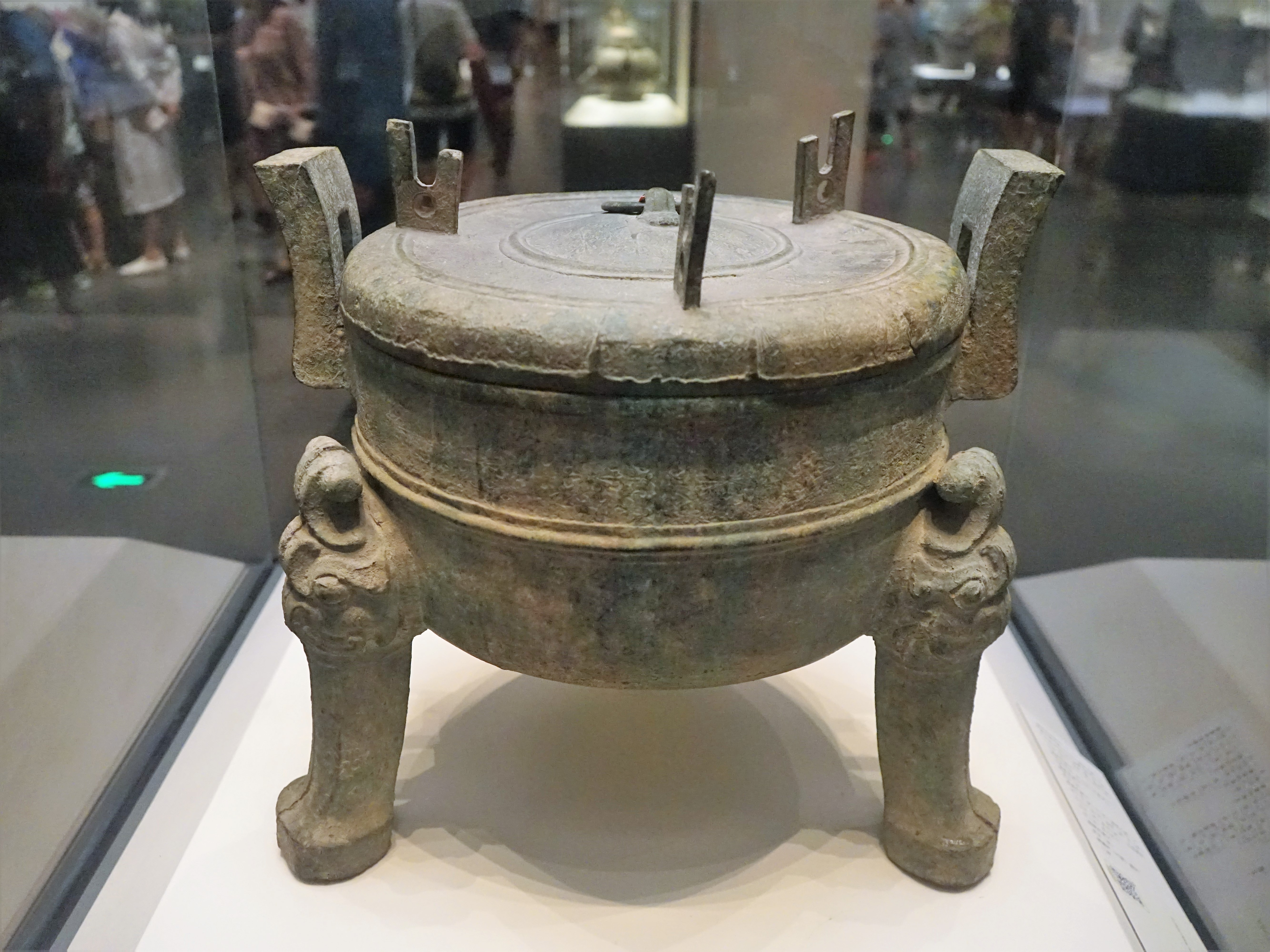 "Xiong Han" Bronze Ding (food container). Warring States, Chu state. Unearthed at Zhujiaji, Shou County, Anhui, in 1933.